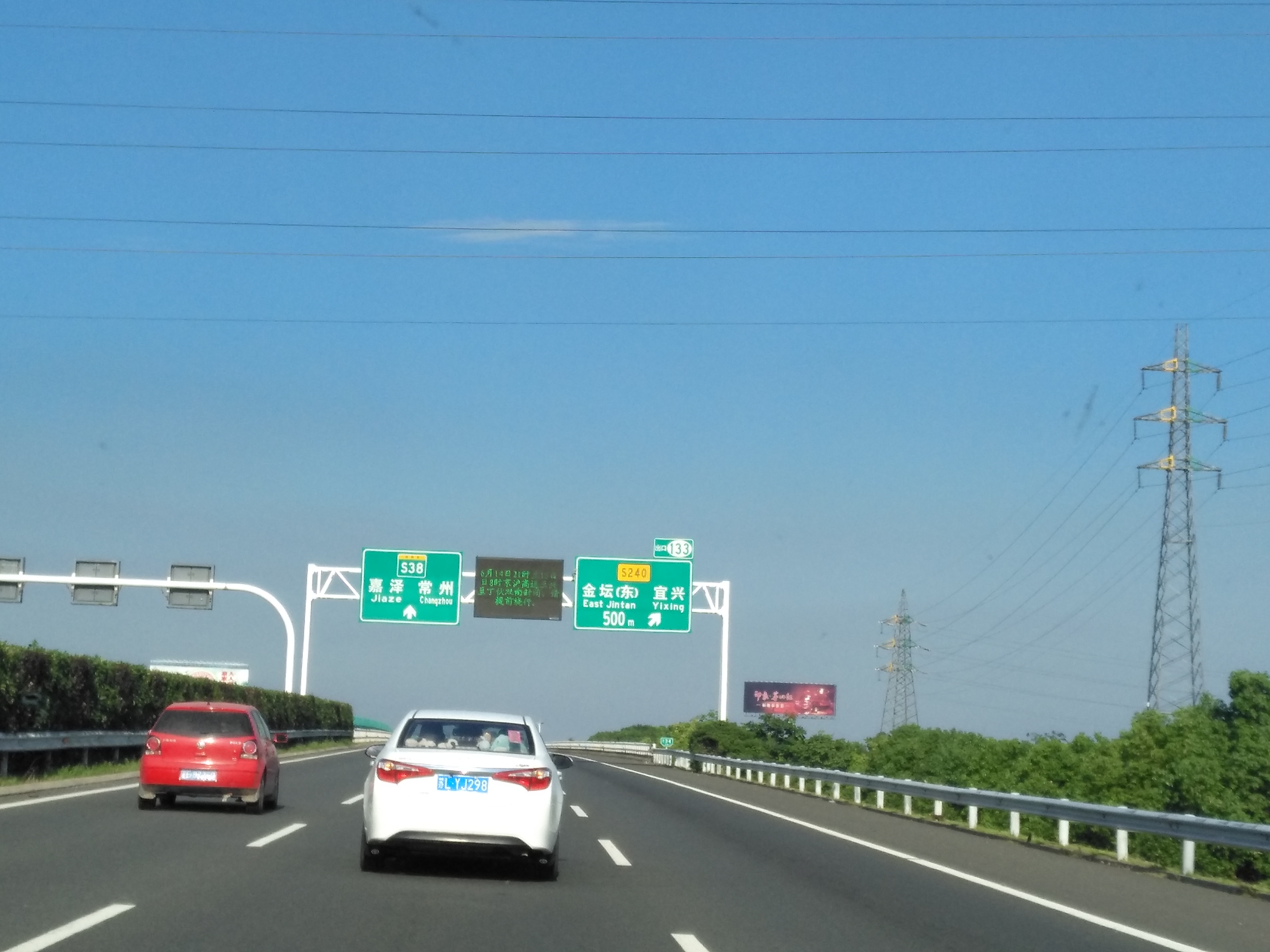 Changzhou section of S38 Changshu-Hefei Expressway, taken on July 16, 2018.